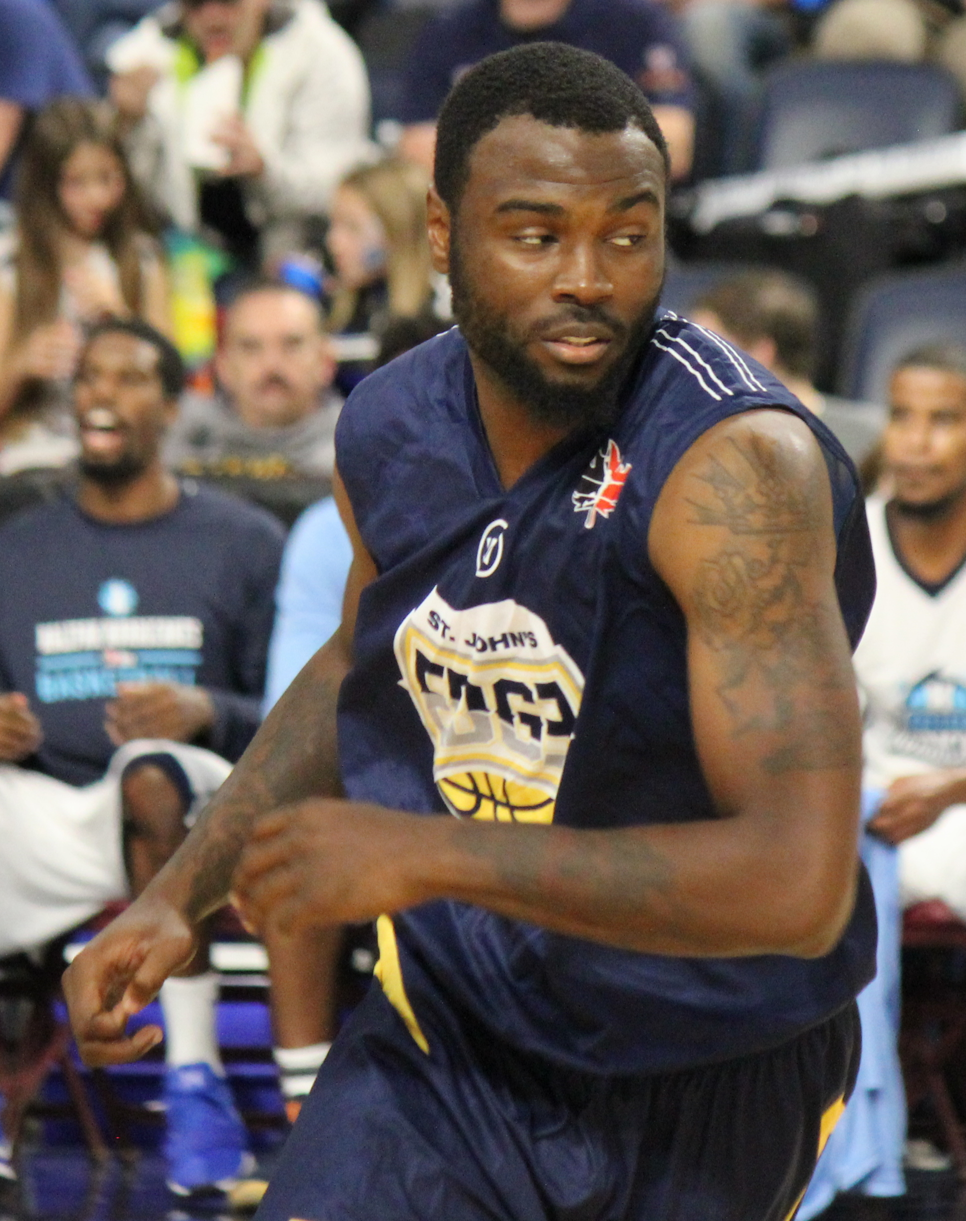 halifax